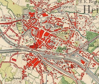 Plattegrond Hengelo 1900